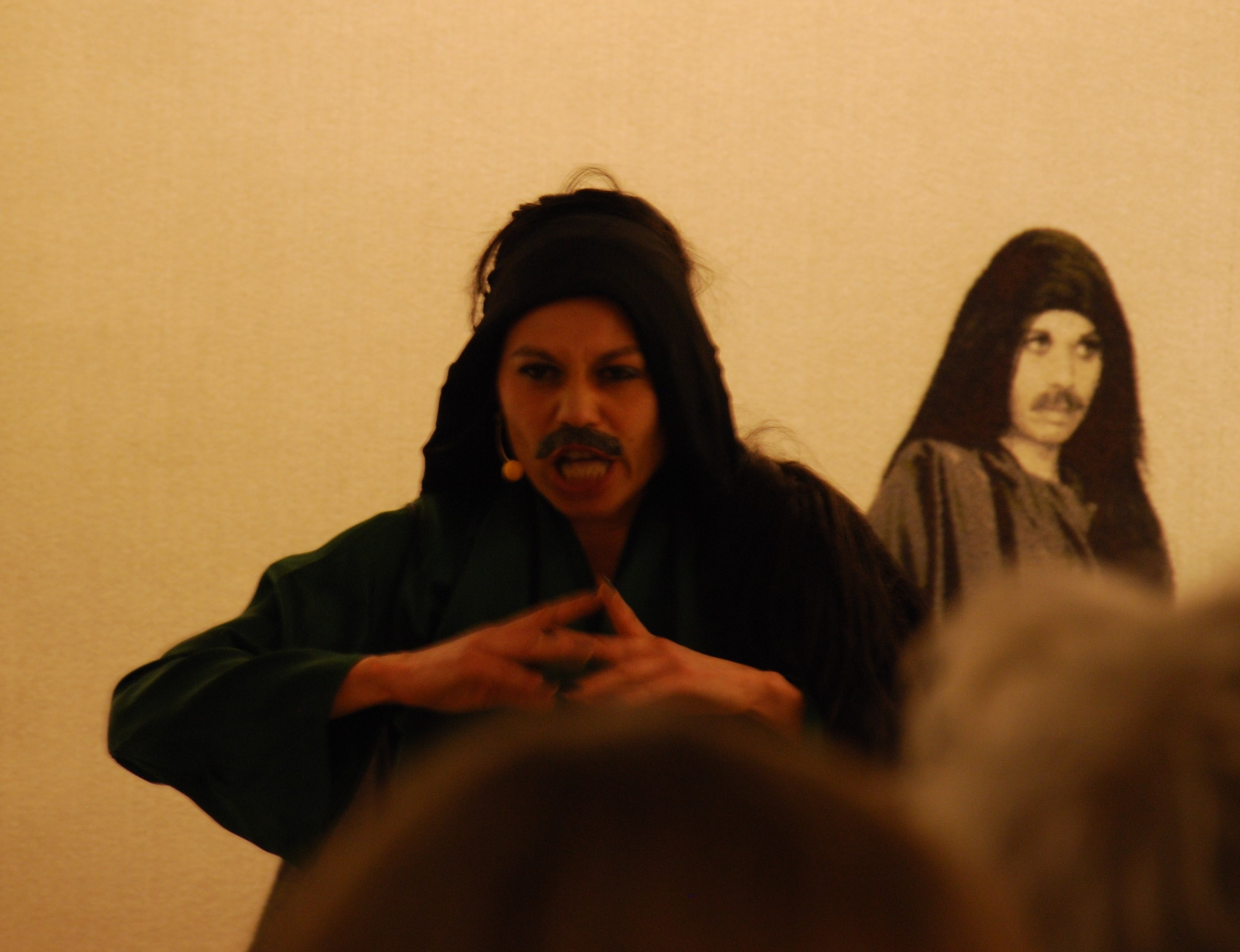 Danish video and performance artist Lilibeth Cuenca Rasmussen at a performance Fberuary 2012 at Galleri Christian Larsen in Stockholm, Sweden